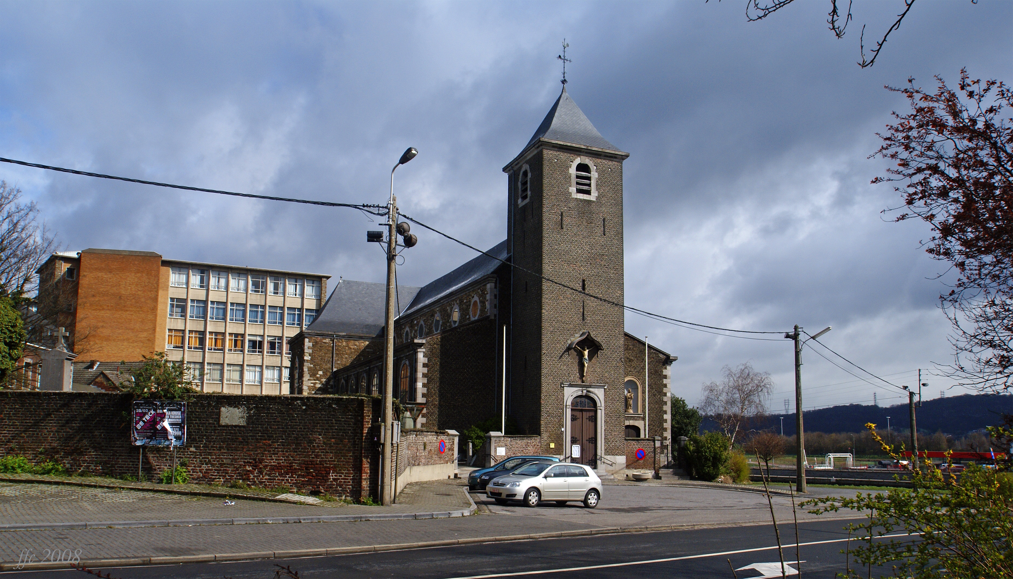 Herstal (Belgium) IPES secondary school and church Place Licourt